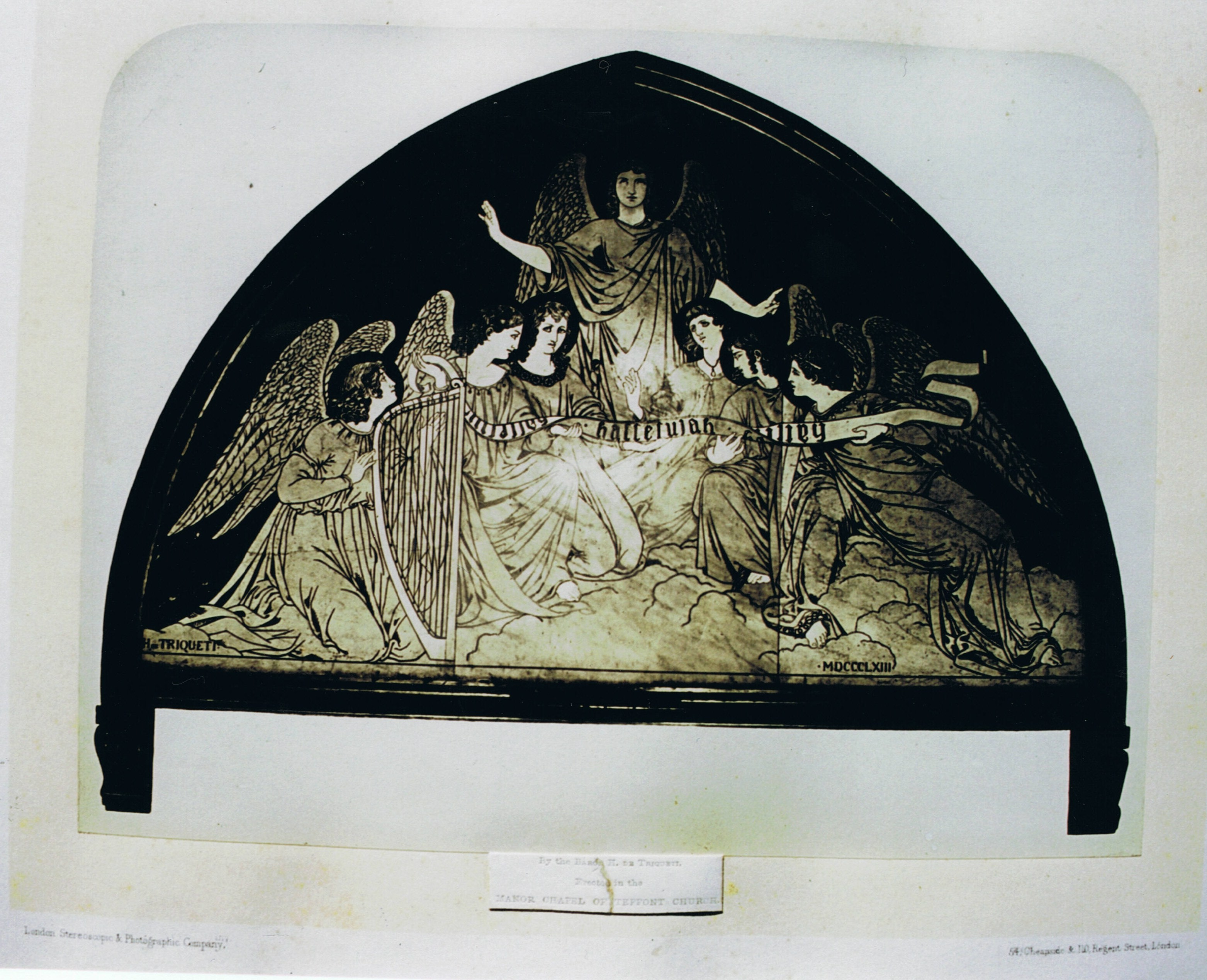 photo (Oct. 2009) of a c.1870 photo of the Triqueti tarsia Tarsia panel at Teffont commissioned by Emily & William Fane De Salis.Rodolph (talk) 17:12, 24 November 2009 (UTC) INFO Marriage of Triqueti as described in the New Monthly Magazine, London, 1834: 'At the Hotel of His Excellency Earl Granville, in Paris, by the Rt. Rev. Bishop Luscombe, Henry de Triqueti, son of the Baronne de Salis de Triqueti, to Julia Philippina, youngest daughter of the late Rev. Edward Foster, Chaplain of the British Embassy at the Court of France. Rodolph (talk) 01:29, 22 February 2014 (UTC)